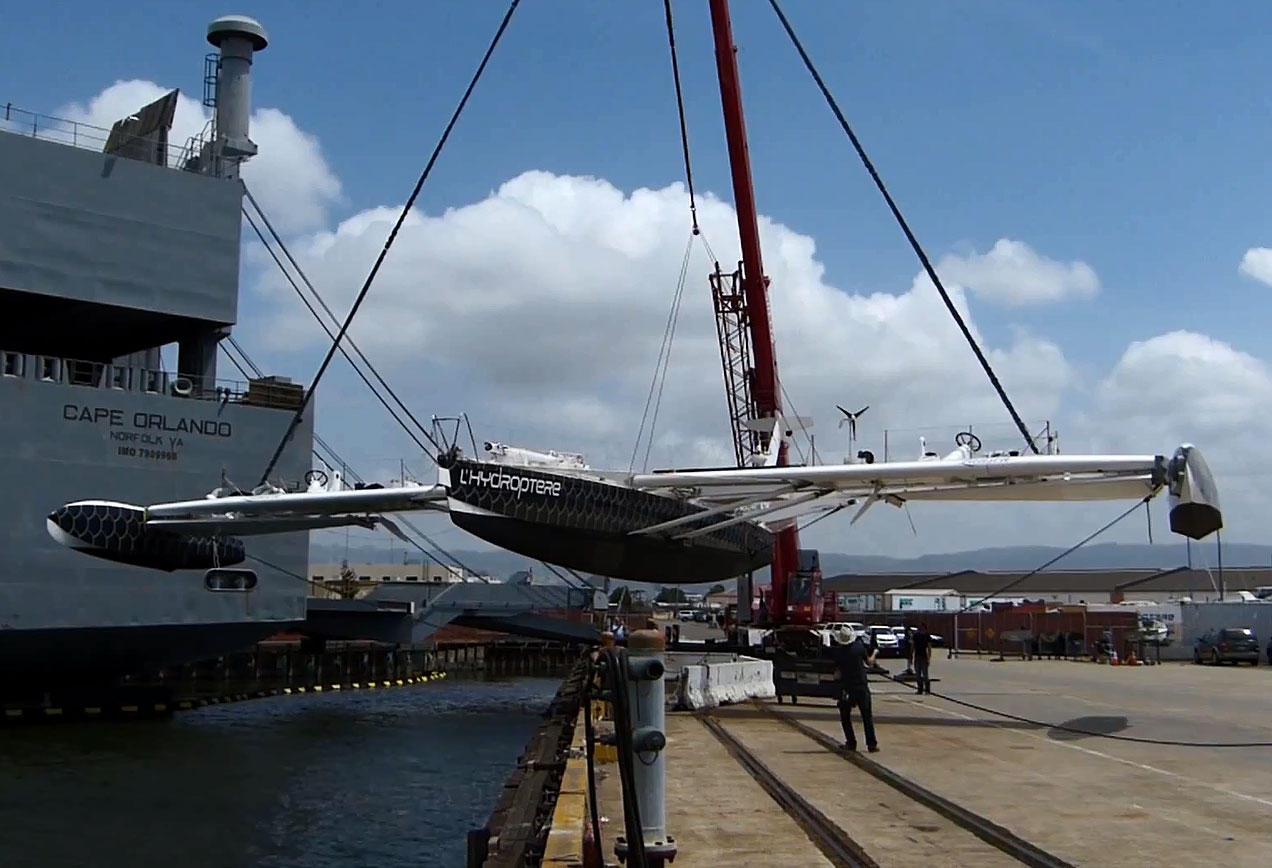 Launching Hydroptère after maintenance in Alameda, California, USA, in May 2013.